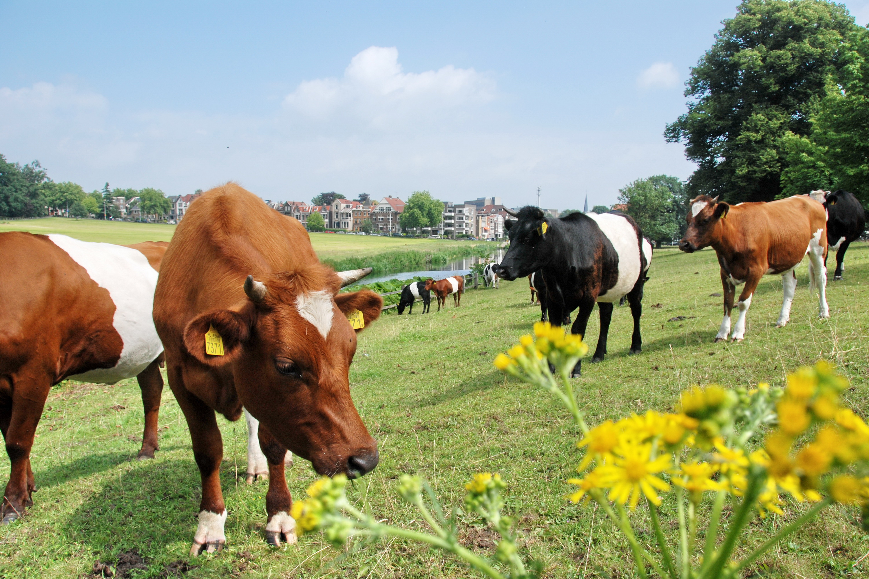 Dutch belted cows at Park Sonsbeek meadows in the centre of the city of Arnhem (look the background)